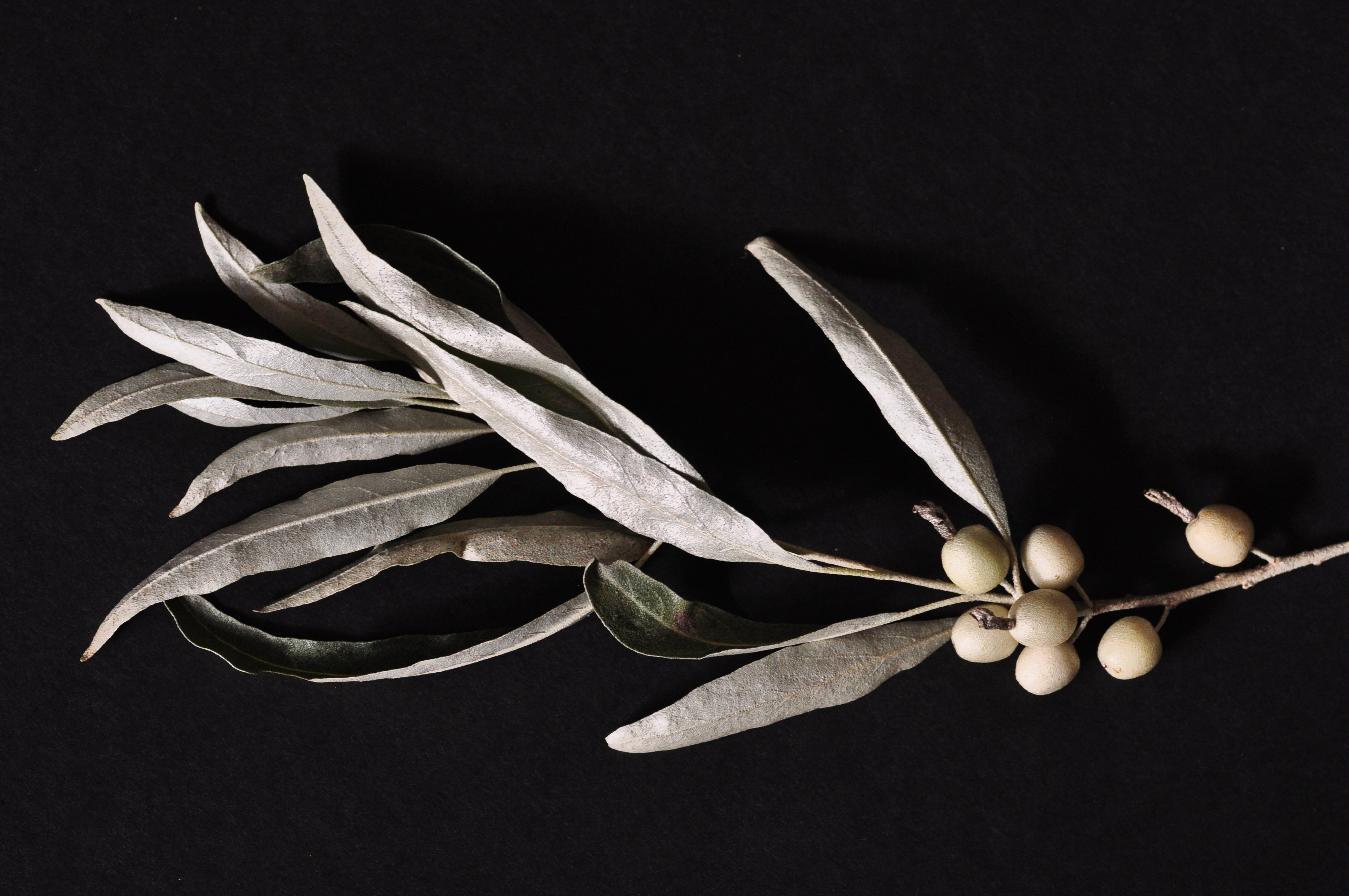 Branch of silver berry (Elaeagnus angustifolia L.) from Eglinton Flats, Toronto, Canada. September 2014.